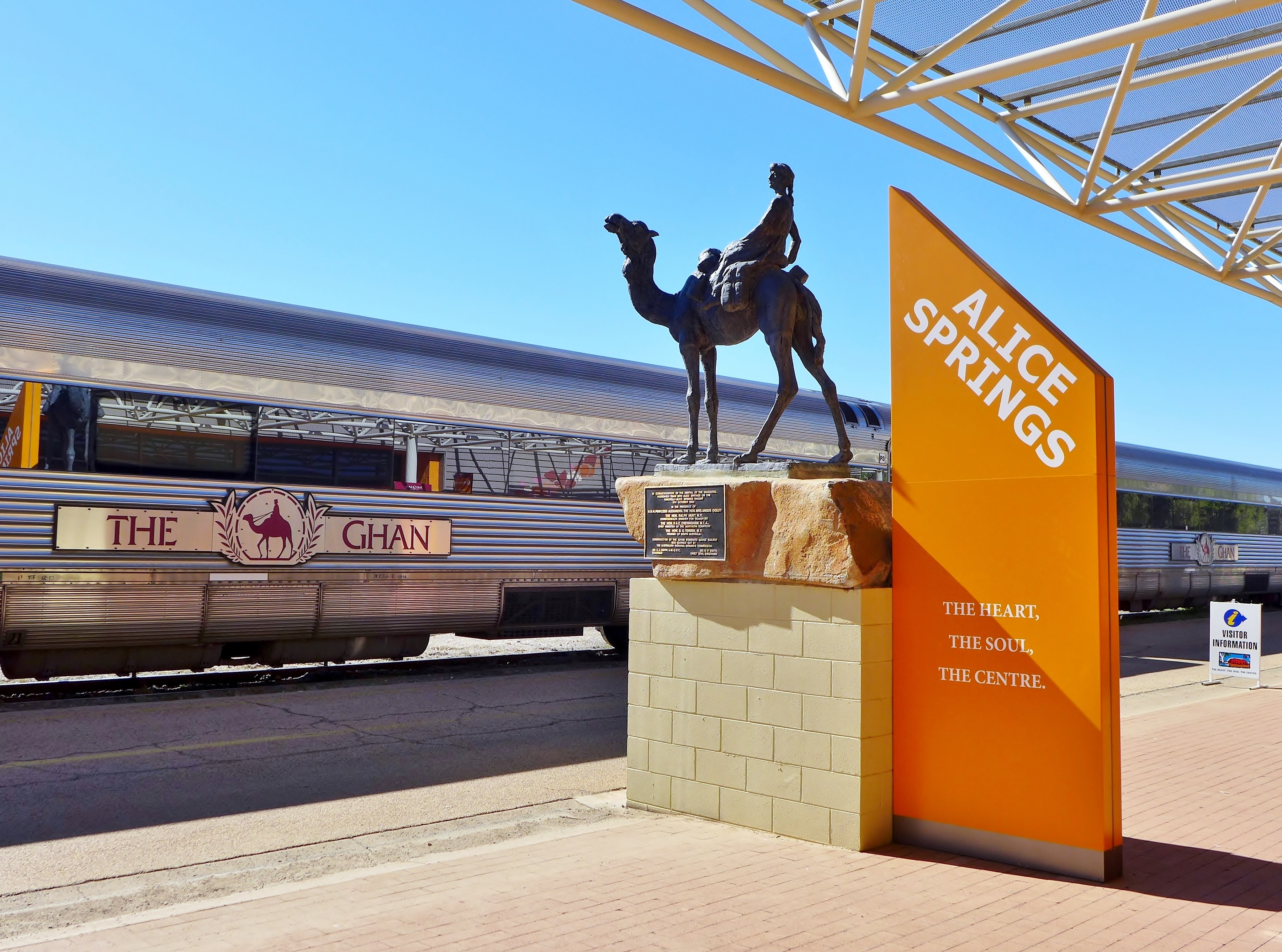 The Adelaide-bound four day Ghan pauses at Alice Springs while its passengers enjoy various tours of the local area.